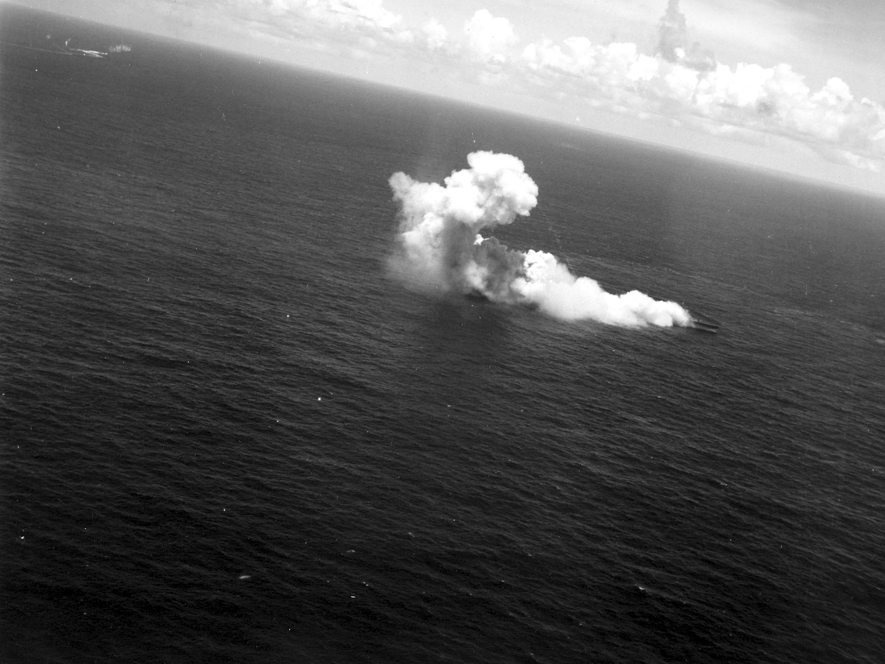 The Japanese light cruiser Katori burning off Truk Lagoon, as seen from U.S. Navy Grumman TBF Avenger of Torpedo Squadron Six (VT-6) from USS Intrepid (CV-11) on 17 February 1944. The destroyer Maikaze is in the left distance. Katori was damaged by air attack and sunk with Maikaze off Truk by the heavy cruisers USS New Orleans (CA-32), USS Minneapolis (CA-36) and the destroyers USS Radford (DD-446) and USS Burns (DD-588).